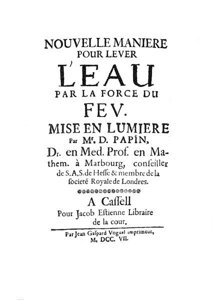 Title page